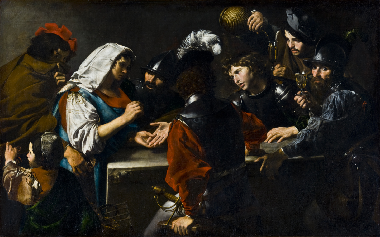 "The Fortune Teller", Oil on canvas, 150 x 239 cm Toledo Museum of Art, Toledo, Ohio